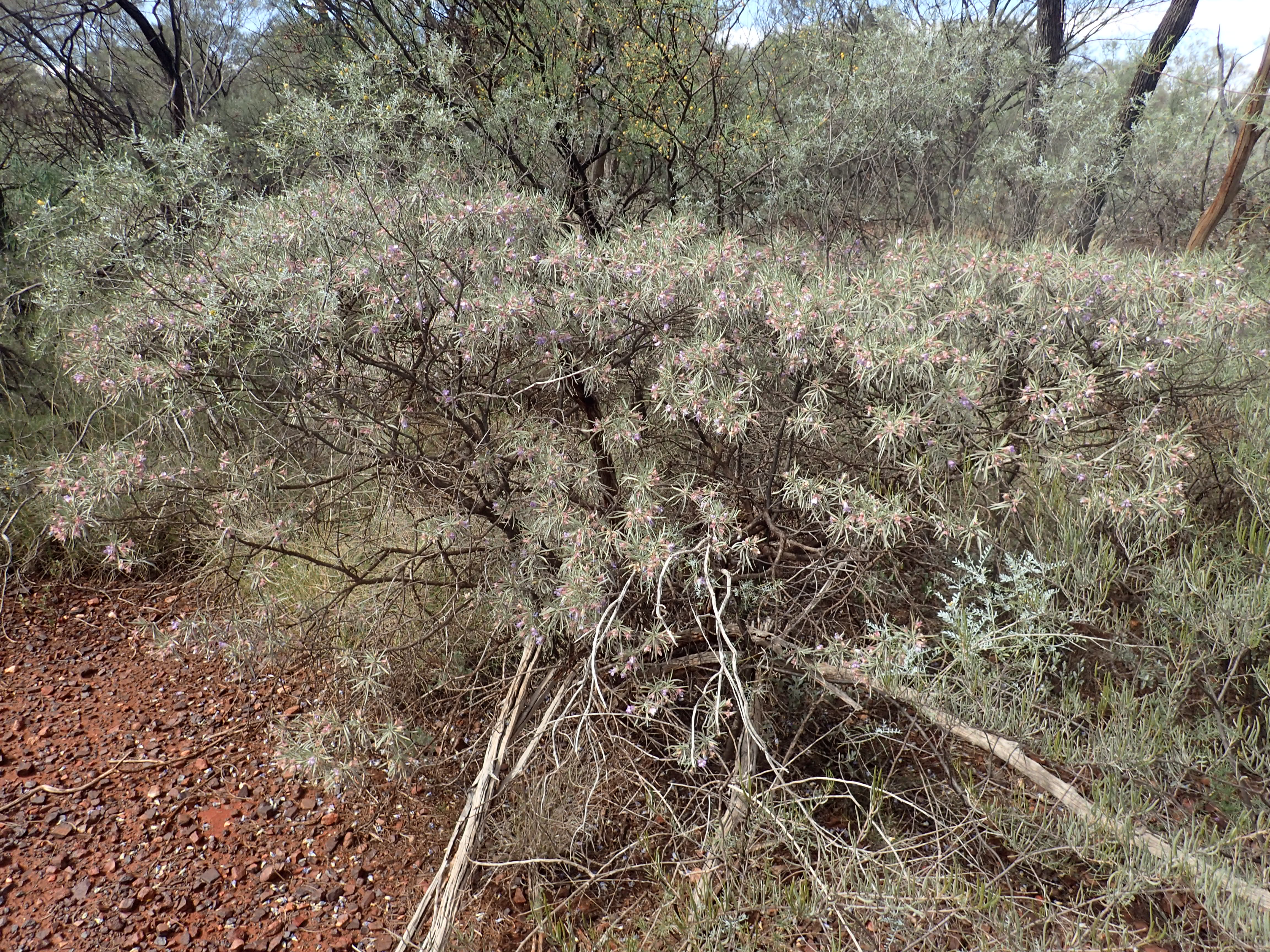 Eremophila phyllopoda obliqua growing near Giles Point on the "Prairie Downs" track